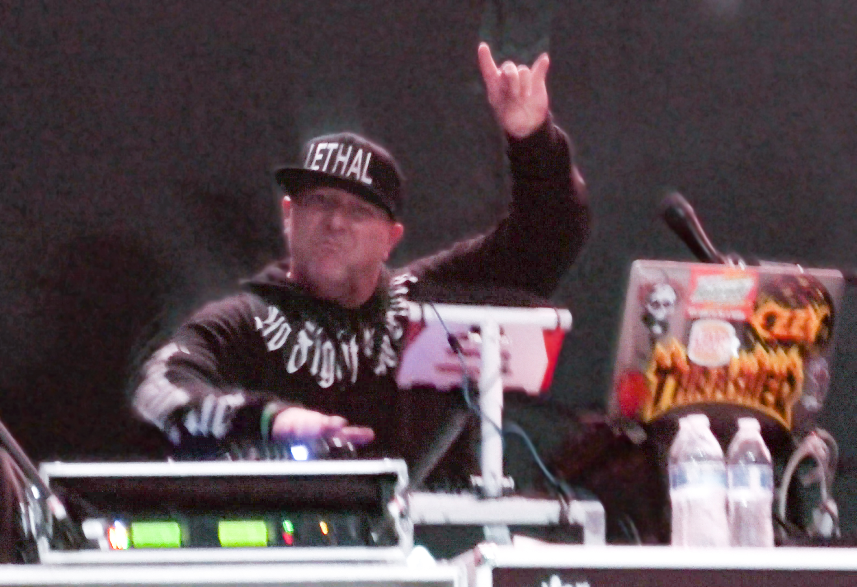 DJ Lethal performing with Limp Bizkit at KROQ Weenie Roast 2019.